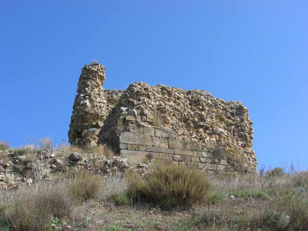 Castillo de Saldaña